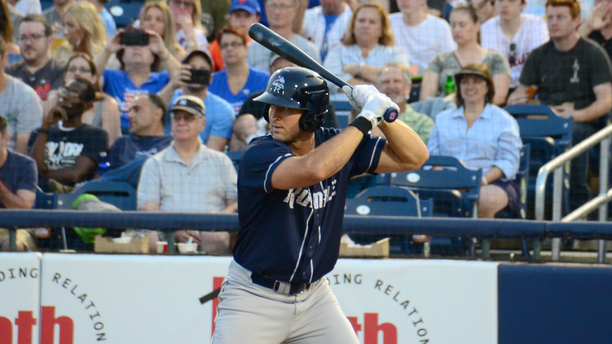 Tim Tebow (b.1987) batting for the Double-A Binghamton Rumble Ponies on 9 June 2018.